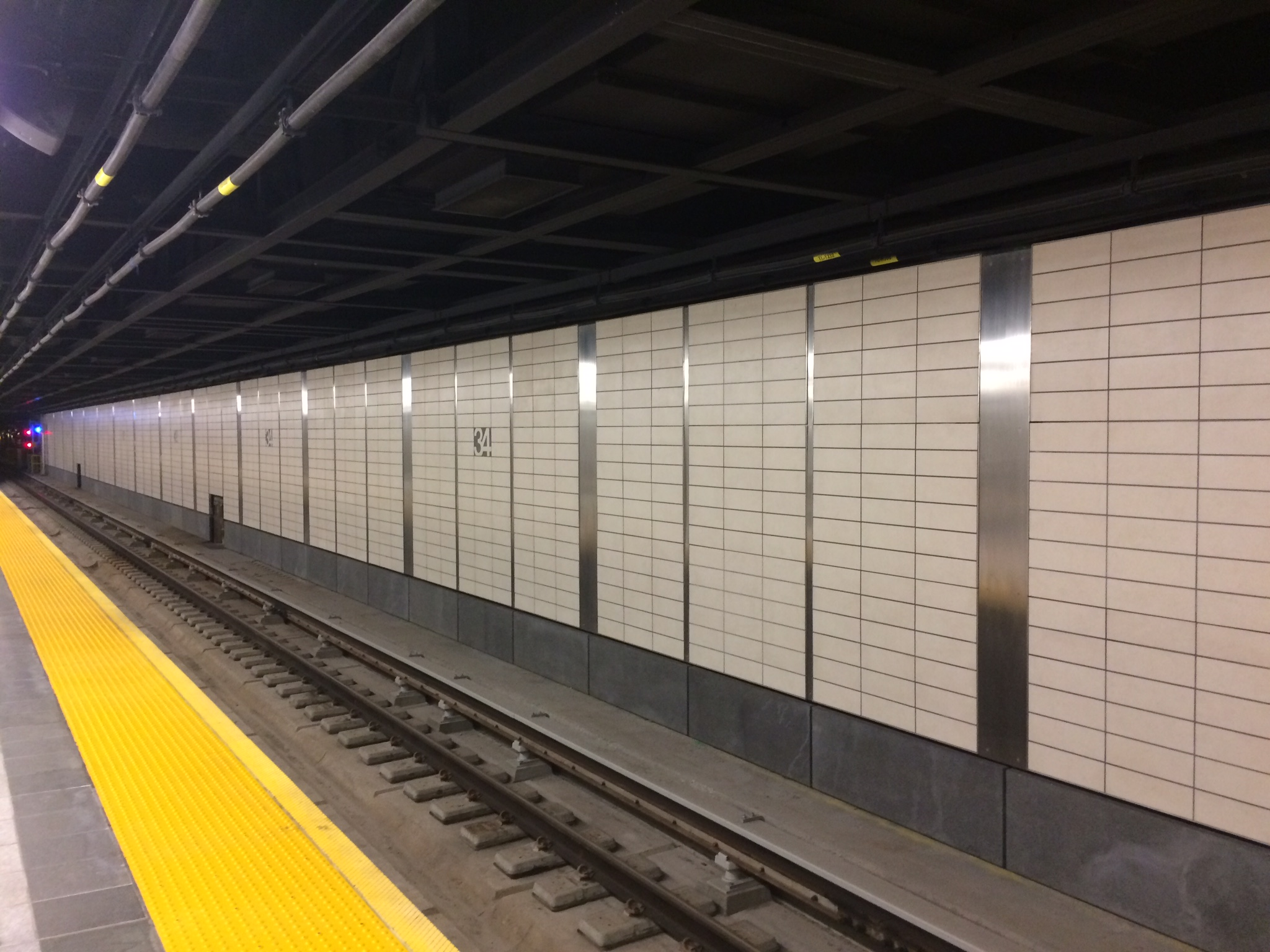 Track station looking east.